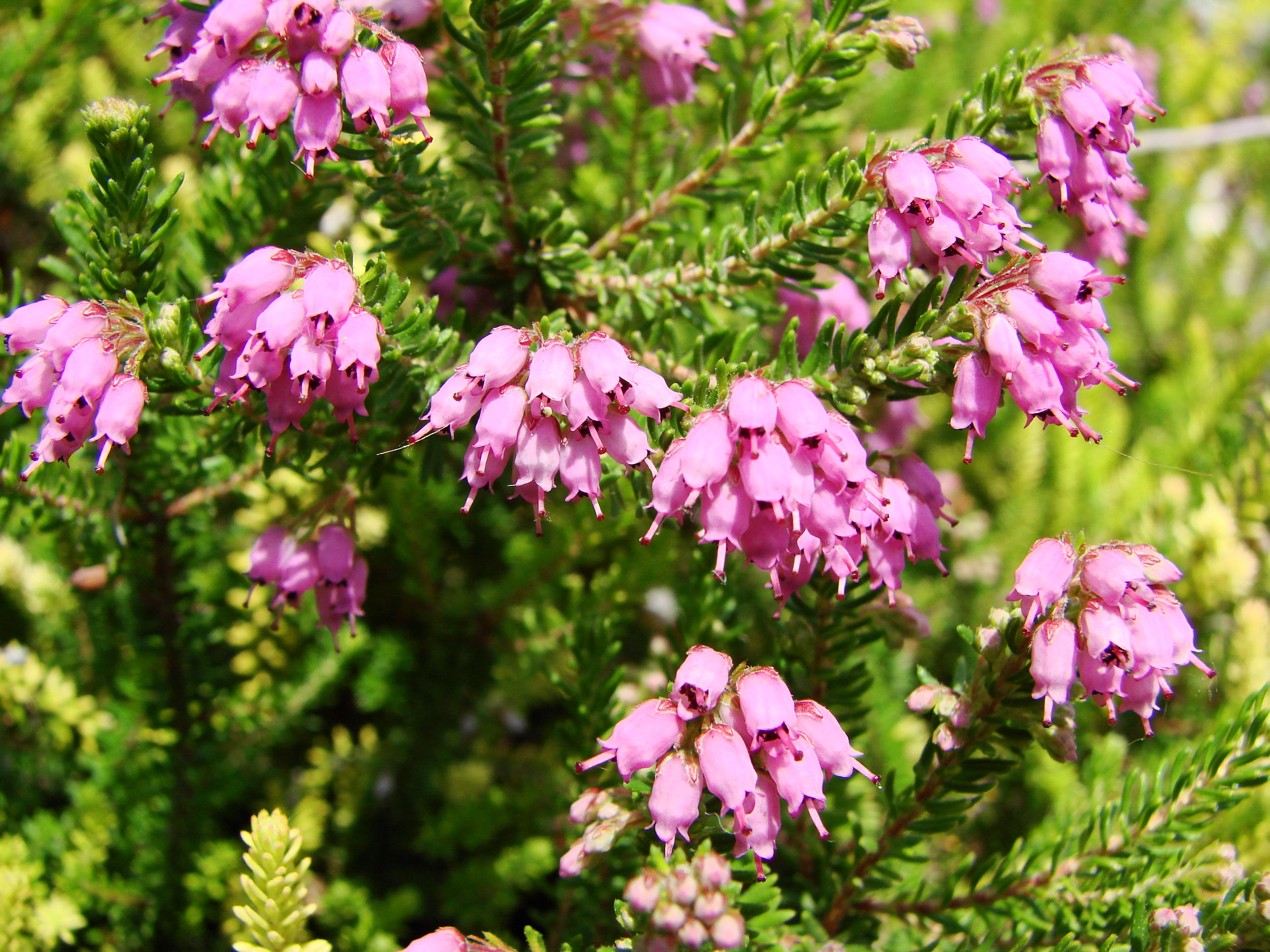 Picture taken in the university botanical garden of Wrocław (Poland): Bruckenthalia spiculifolia (Salisb.) Rchb. (Syn. Erica spiculifolia Salisb.)